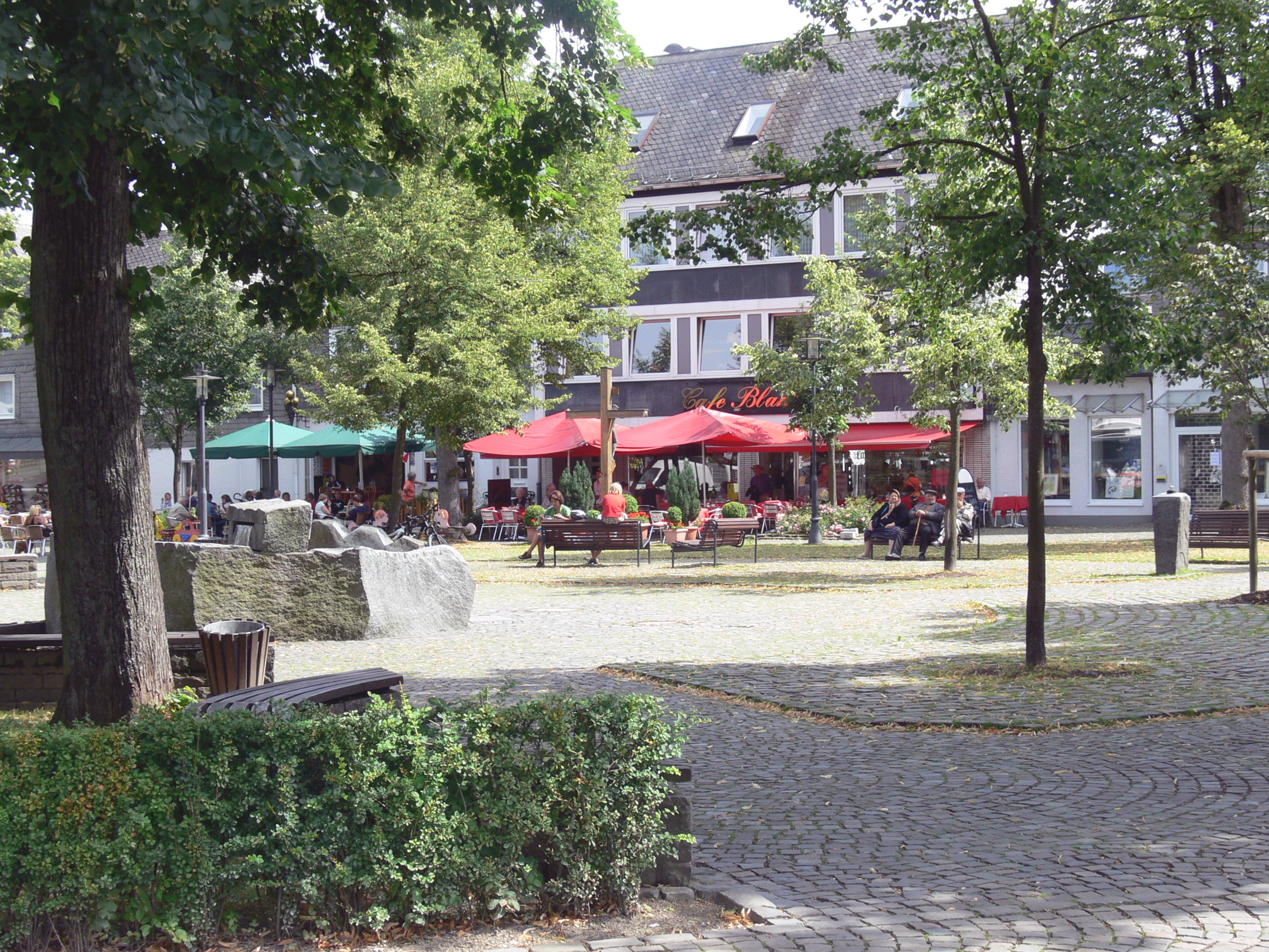 Schmallenberg Marksmen's Square (Schützenplatz)